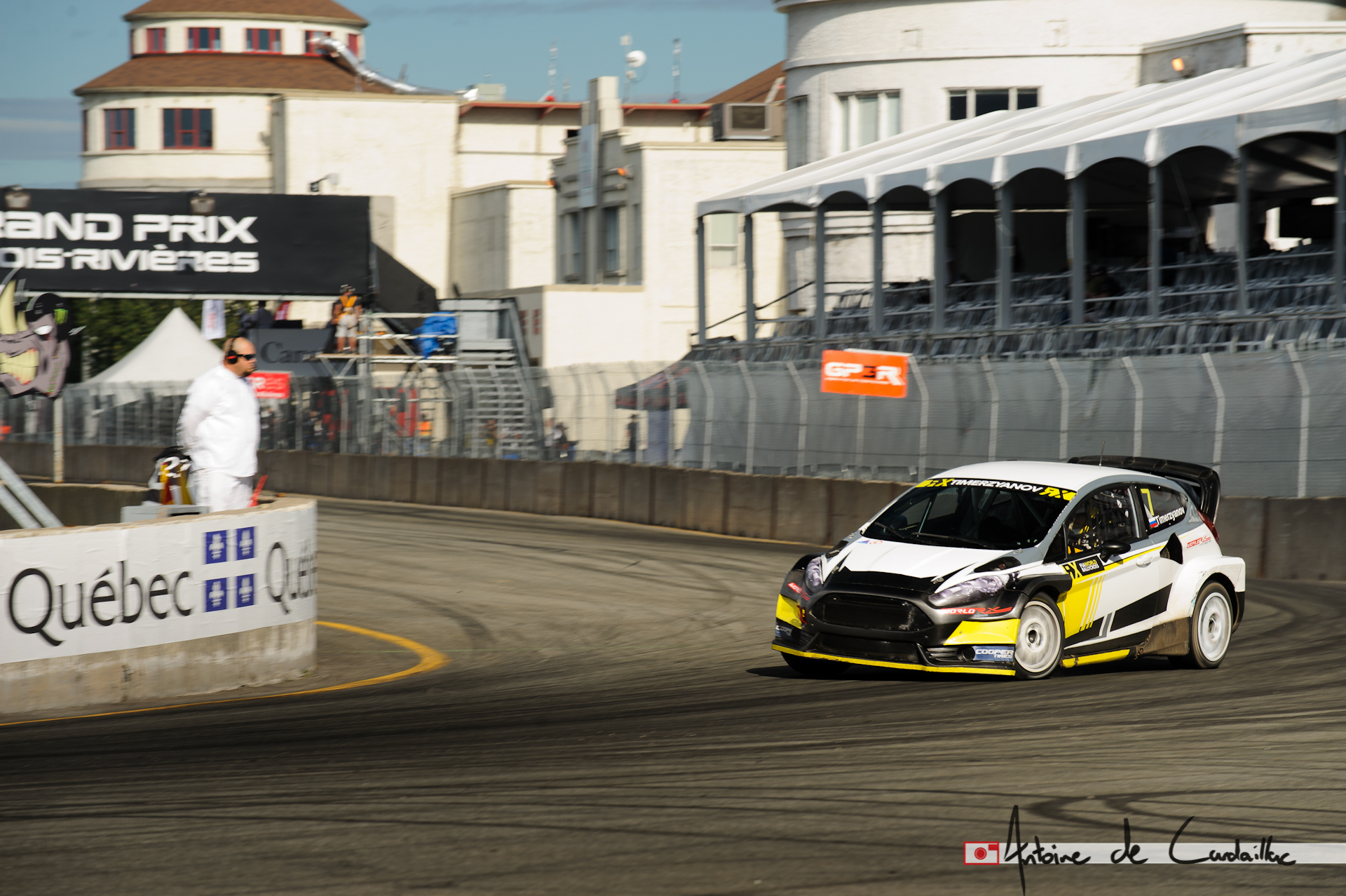 World RallyCross event at the 2016 GP3R (RX)